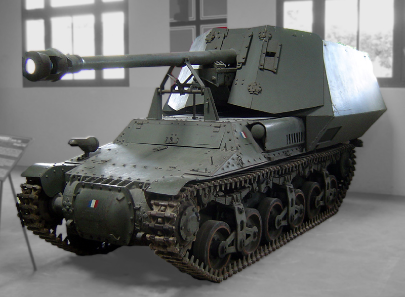 Marder I built on Tracteur Blinde 37L chassis. On display at the Musée des Blindés at Saumur. The picture taken August 8, 2006.